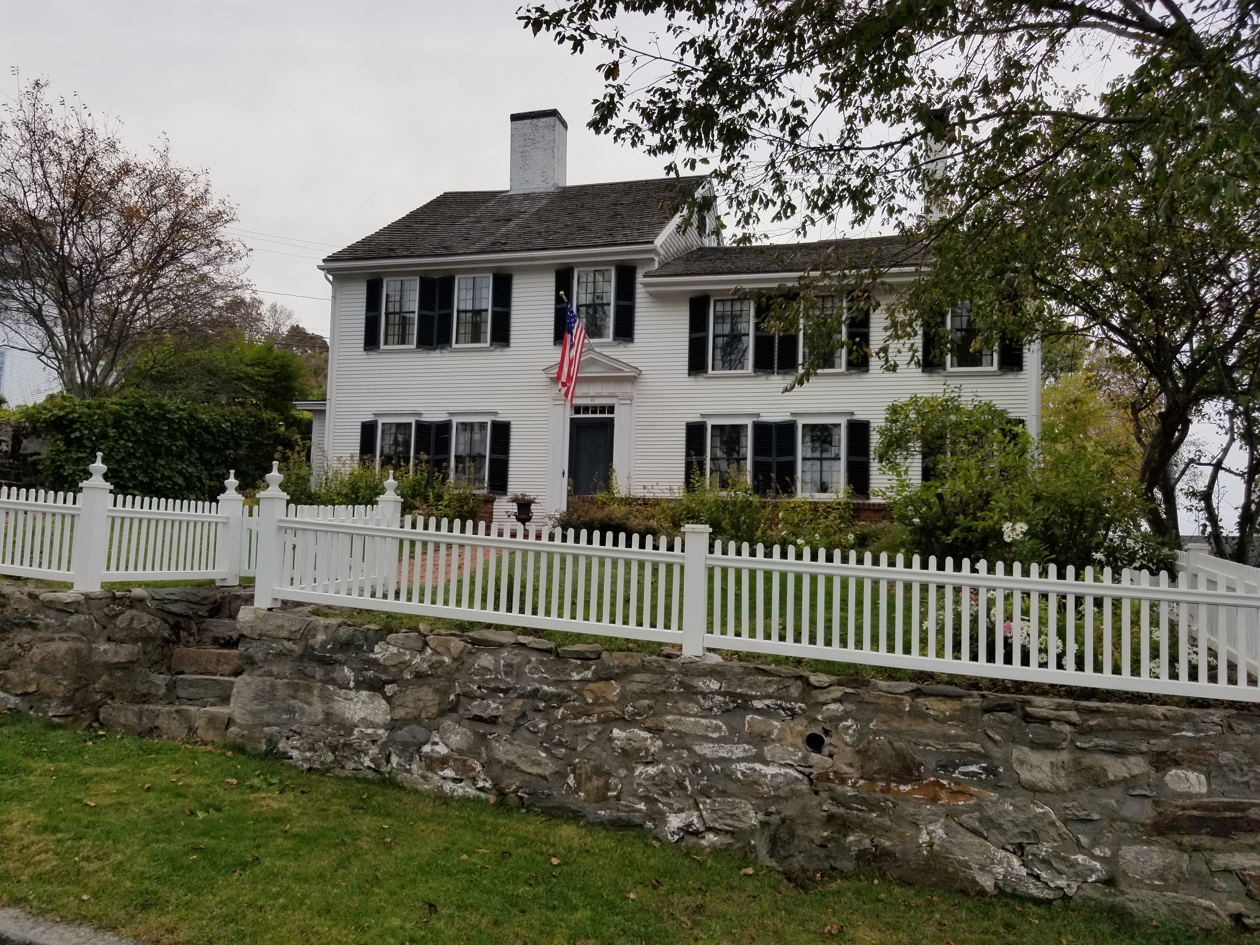 Samuel Lucius-Thomas Howland House also known as Lucas House at 36 North Street in Plymouth Massachusetts MA circa 1640